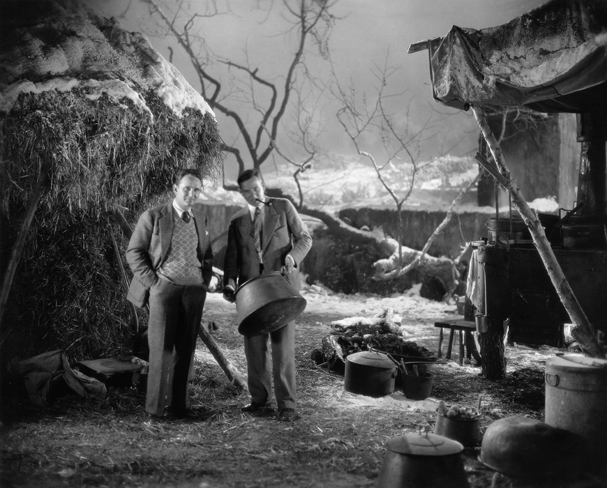 Director Frank Borzage, left, and art director Harry Oliver on the battlefield set of Seventh Heaven (1927).